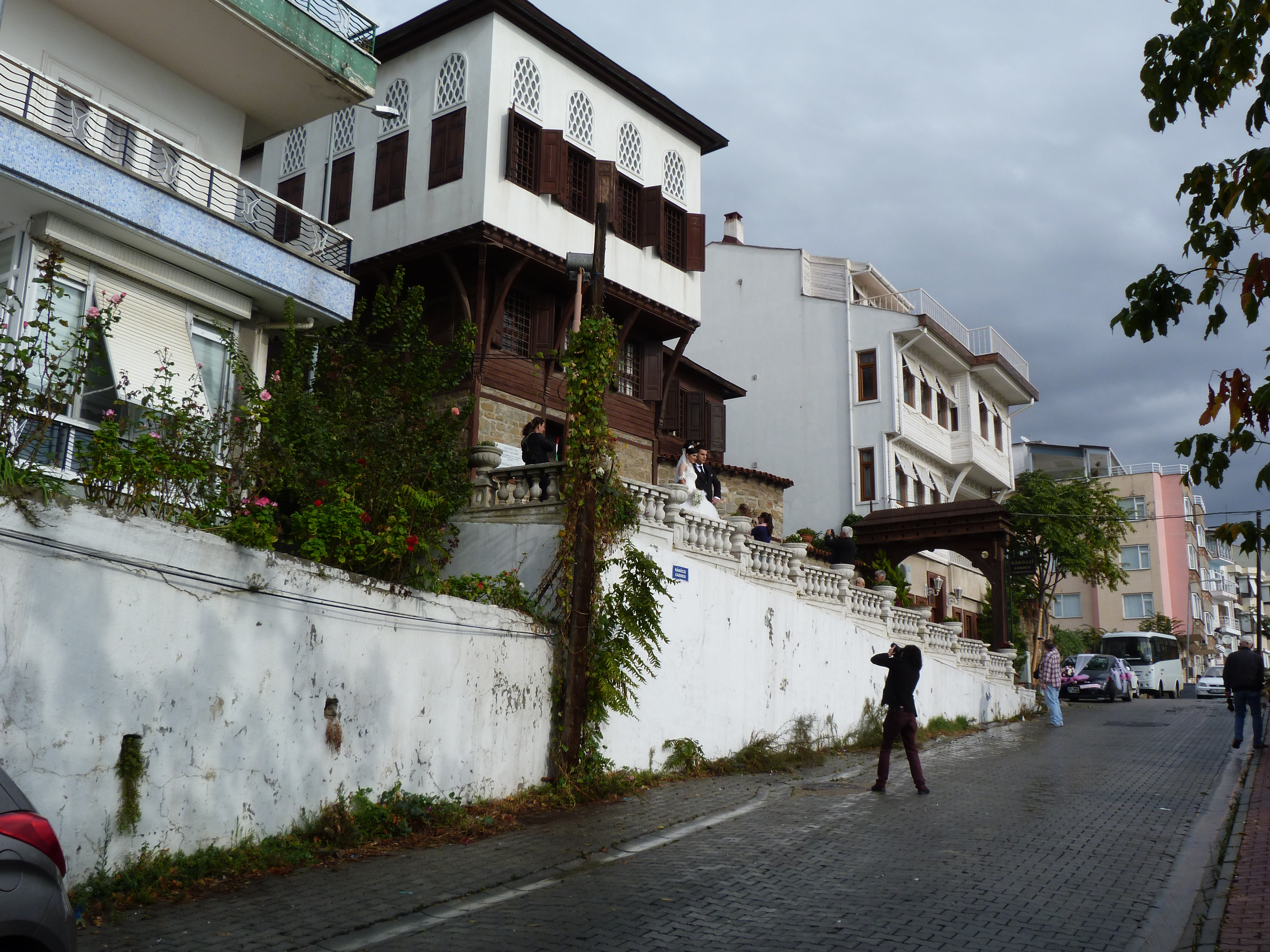 Live on the 25th of october, 2014. Rákóczi Museum, Tekirdağ, Turkey. ©© Derzsi Elekes Andor, Budapest, 2014, Published in the Metapolisz DVD line. You are authorised to use this vid under Creative Commons – even for commercial, for profit purposes. The vid must be attributed to Derzsi Elekes Andor. All of the photos and vids in the Metapolisz DVD line are under Creative Commons and can be used even for commercial – for profit – purposes. Recommended Citation Derzsi Elekes Andor: Metapolisz DVD line